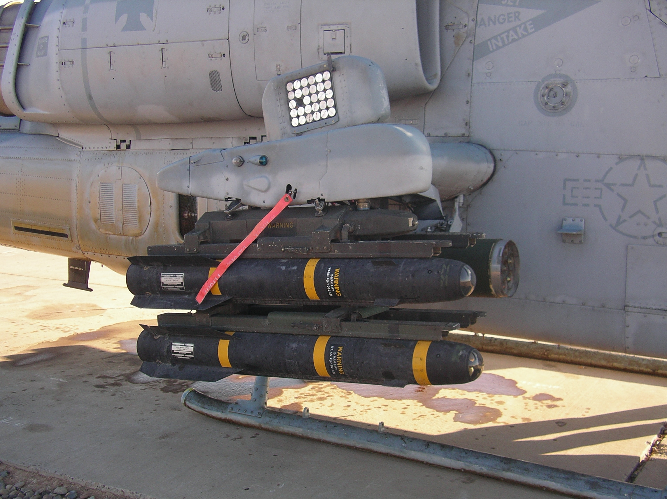 Photo taken at Balad Air Base in Iraq in 2005 of AGM-114 Hellfire loaded on a United States Marine Corps AH-1W Super Cobra.